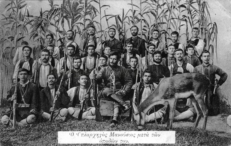 Armed band of captain Manusos (most probably Μανούσος Καναβαράκος)